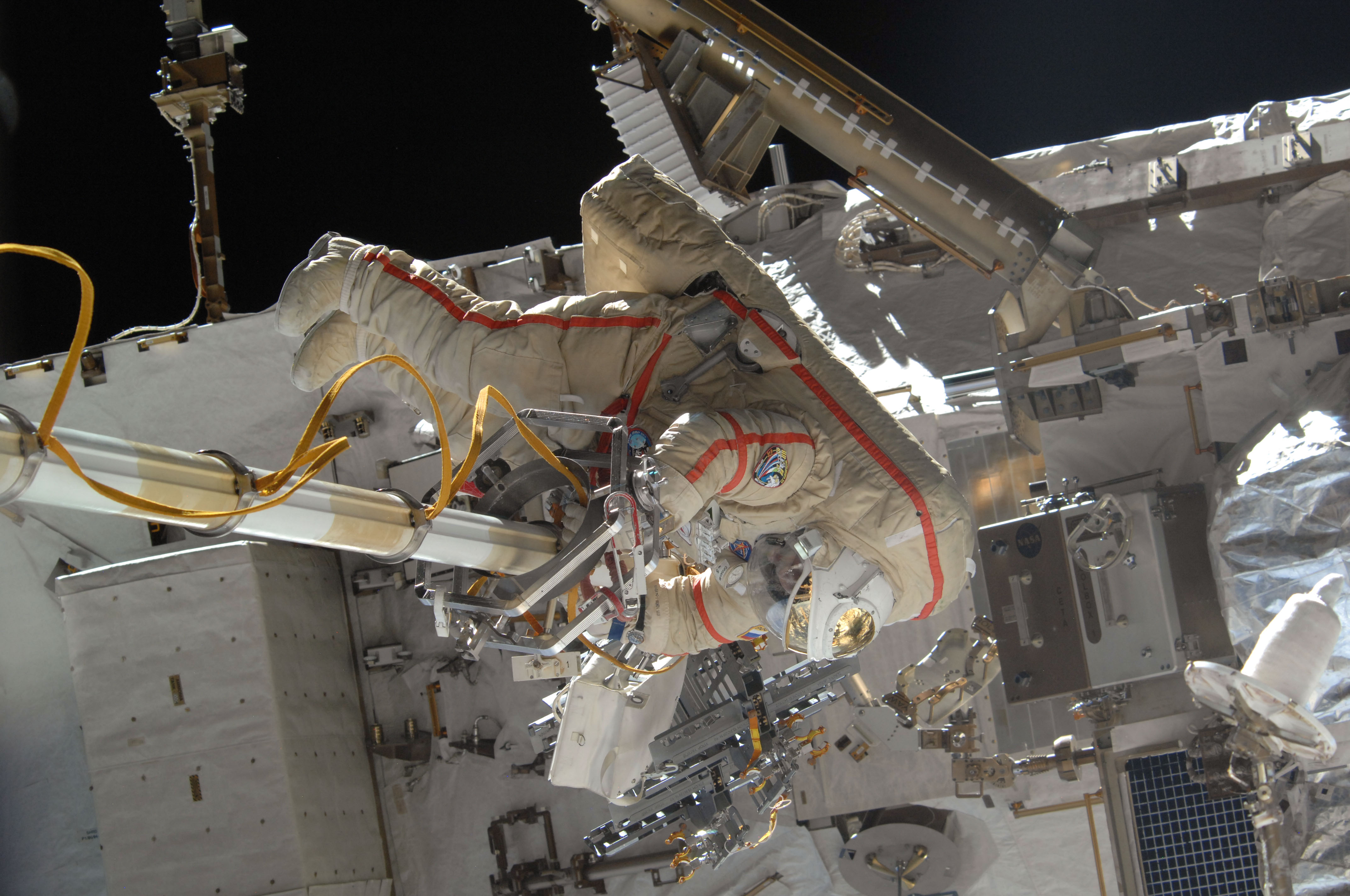 Russian cosmonaut Fyodor Yurchikhin, Expedition 36 flight engineer, attired in a Russian Orlan spacesuit, participates in a session of extravehicular activity (EVA) to continue outfitting the International Space Station. During the seven-hour, 29-minute spacewalk – the longest ever conducted by a pair of Russian cosmonauts – Yurchikhin and Alexander Misurkin (out of frame) rigged cables for the future arrival of a Russian laboratory module and installed an experiment panel.